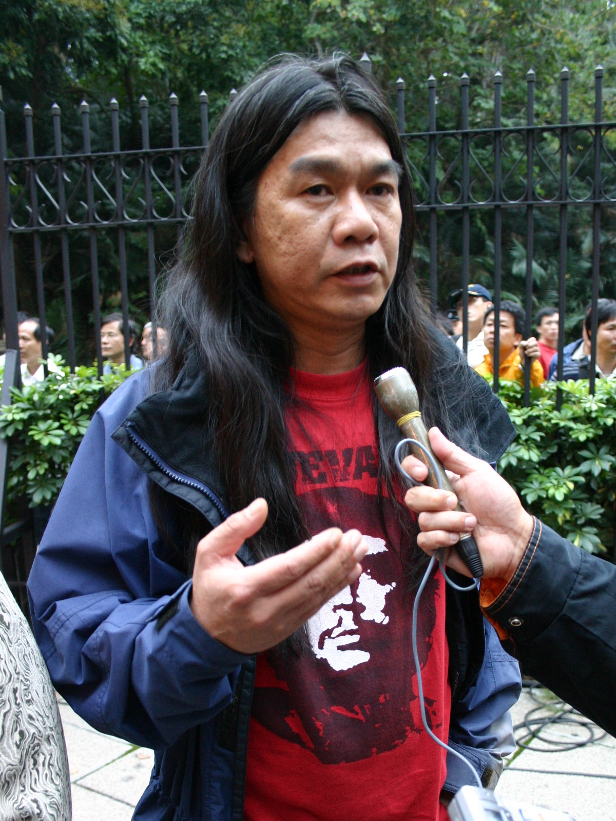 Legislative Council member Leung Kwok Hung Longhair